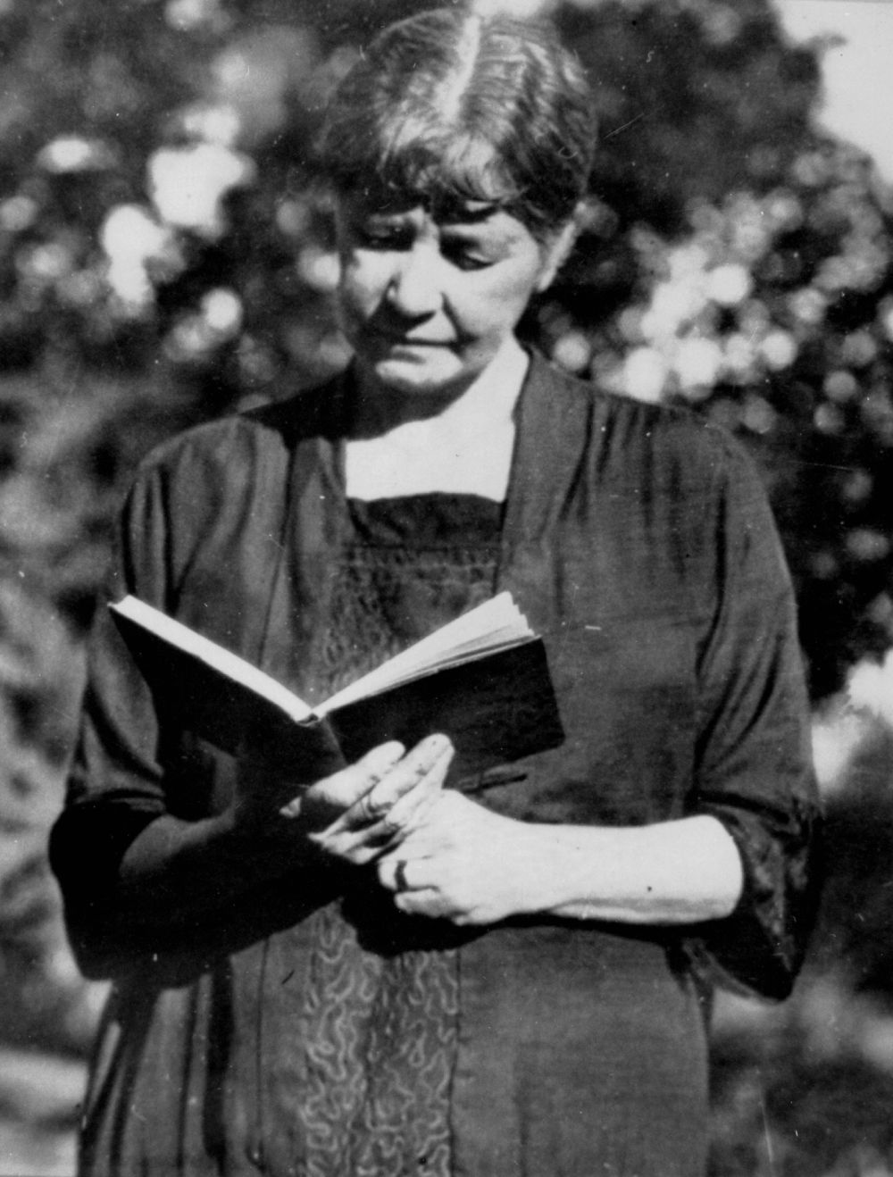 Emily Coungeau (1860-1936) English-born Australian poet and restaurateur